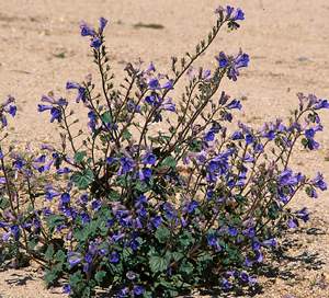 Phacelia campanularia or California bluebell plant found in the western portions of North America.